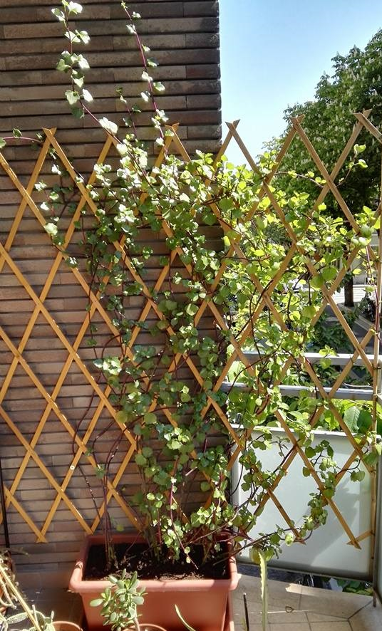 Cape Ivy climbing a trellis in a veranda